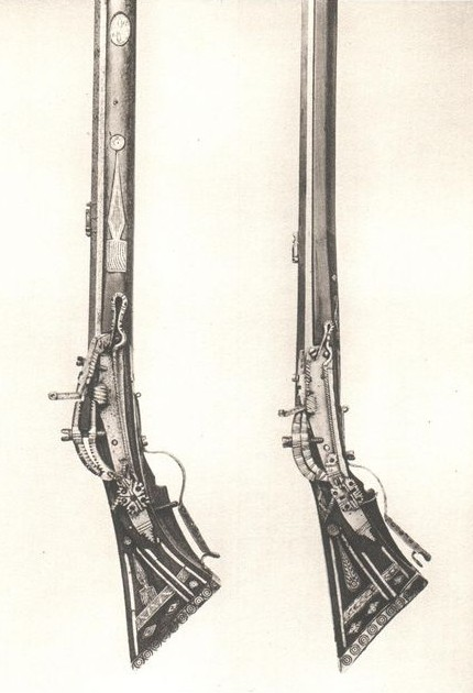 Snaphaunce guns of national Swedish type, middle of 17th century.